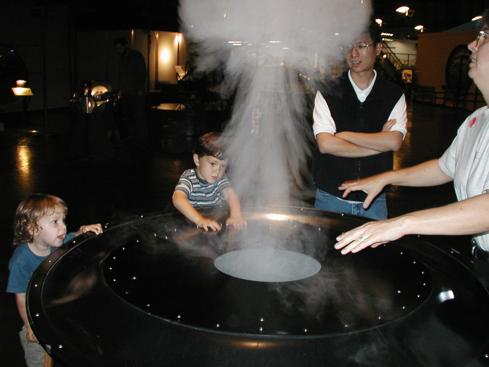 Blowing Smoke: Smoke billows at the Exploratorium